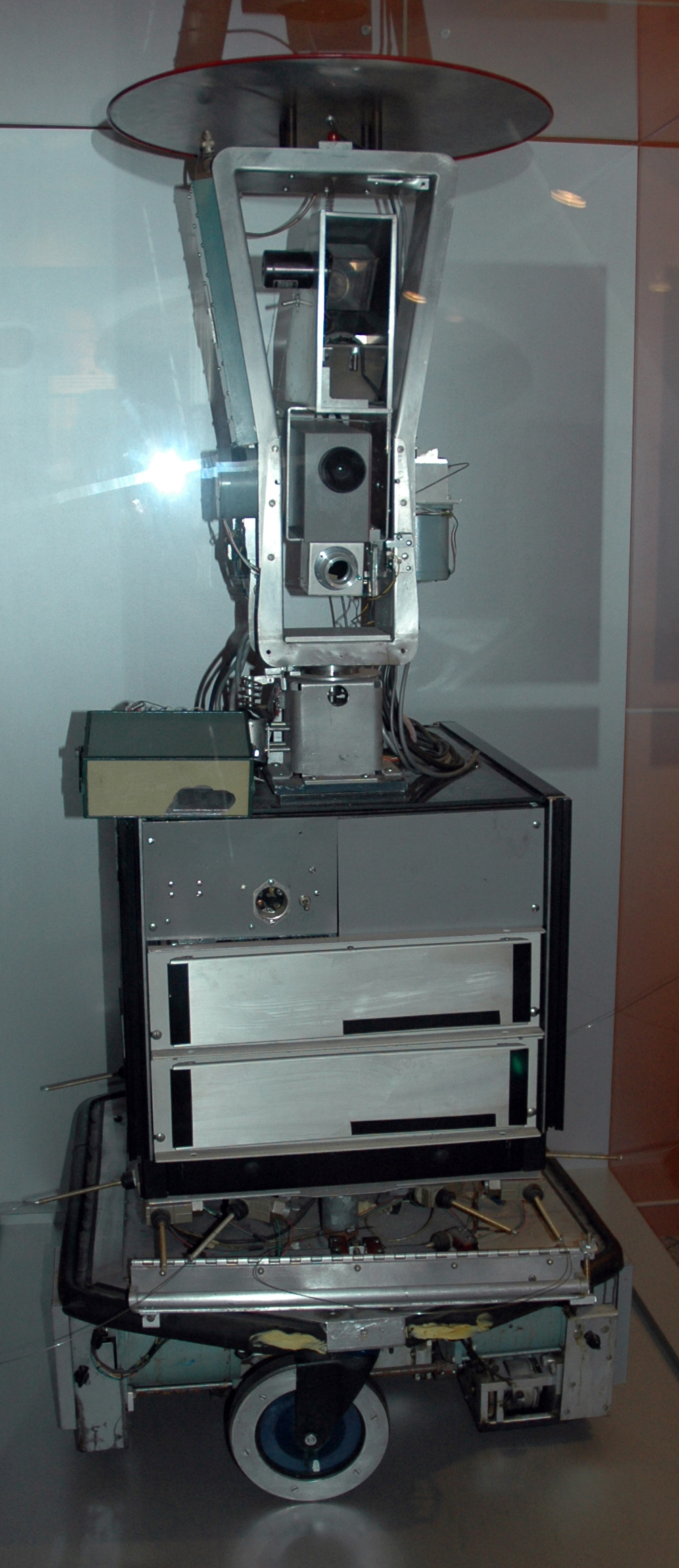 A photo of Shakey the Robot in its case at the Computer History Museum.